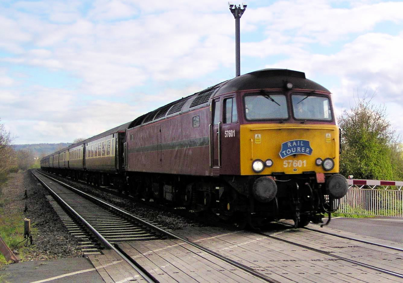 Class 57/6, no. 57601 passing Brockhampton, north of Cheltenham, on 16th April 2005, whilst working a Bath-Skegness charter train. This locomotive was the prototype passenger Class 57, and is now operated by the West Coast Railway Company.